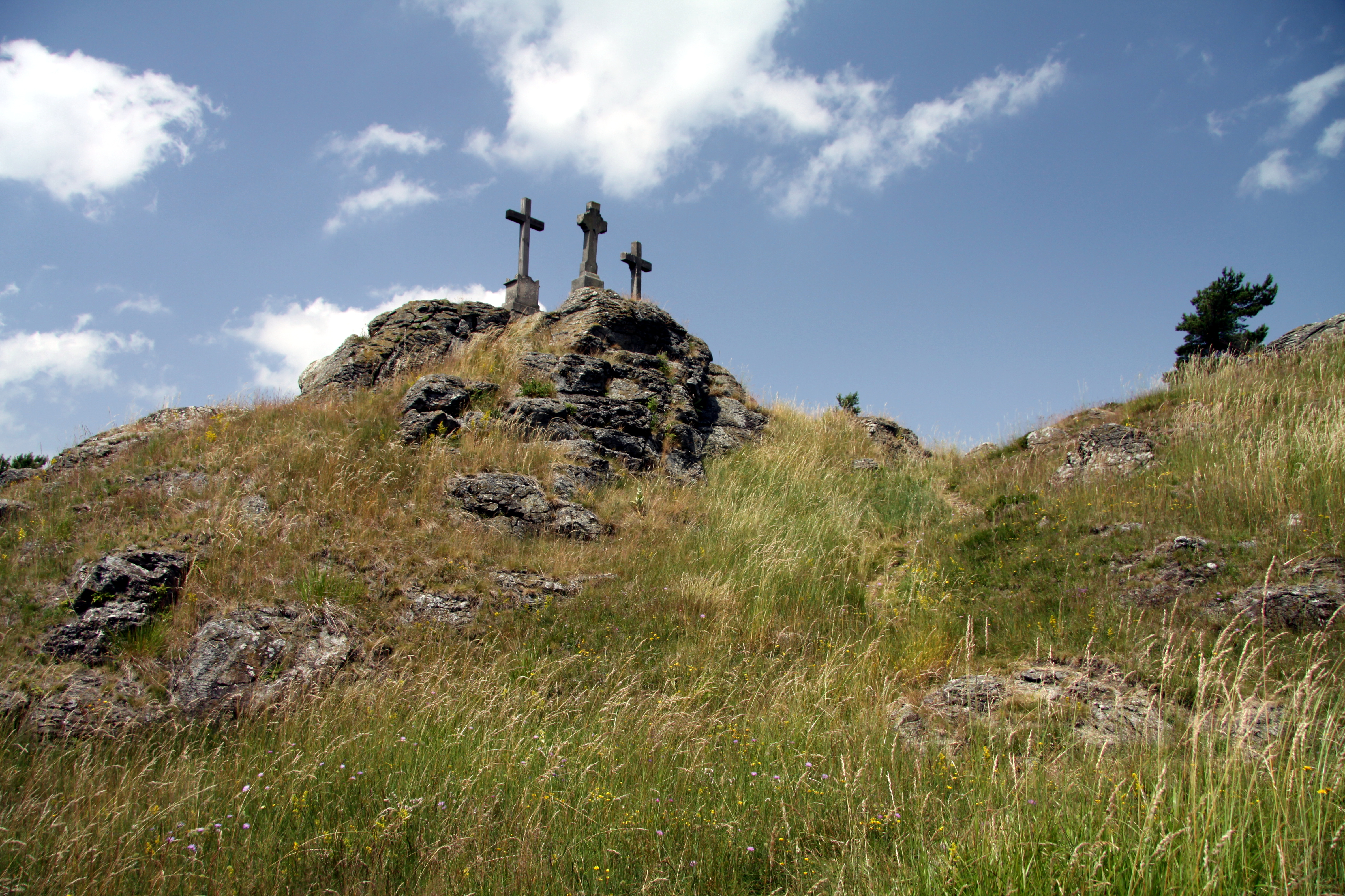 National natural monument Křížky near Prameny village in Cheb District, Czech Republic